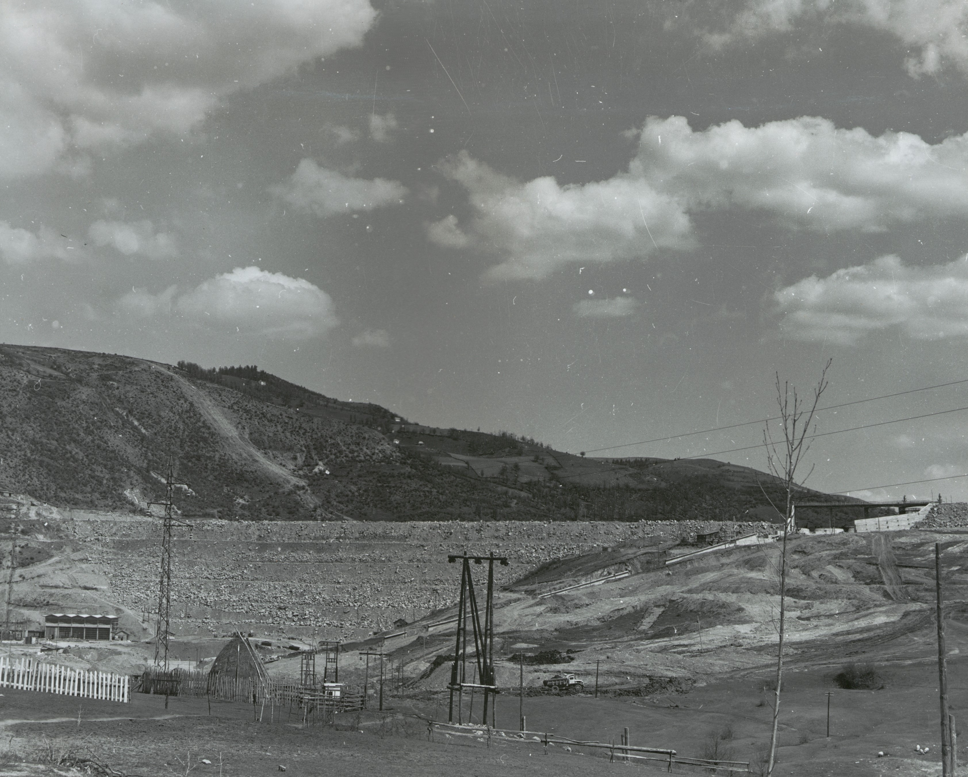 View of the dam Kokin Brod under construction.